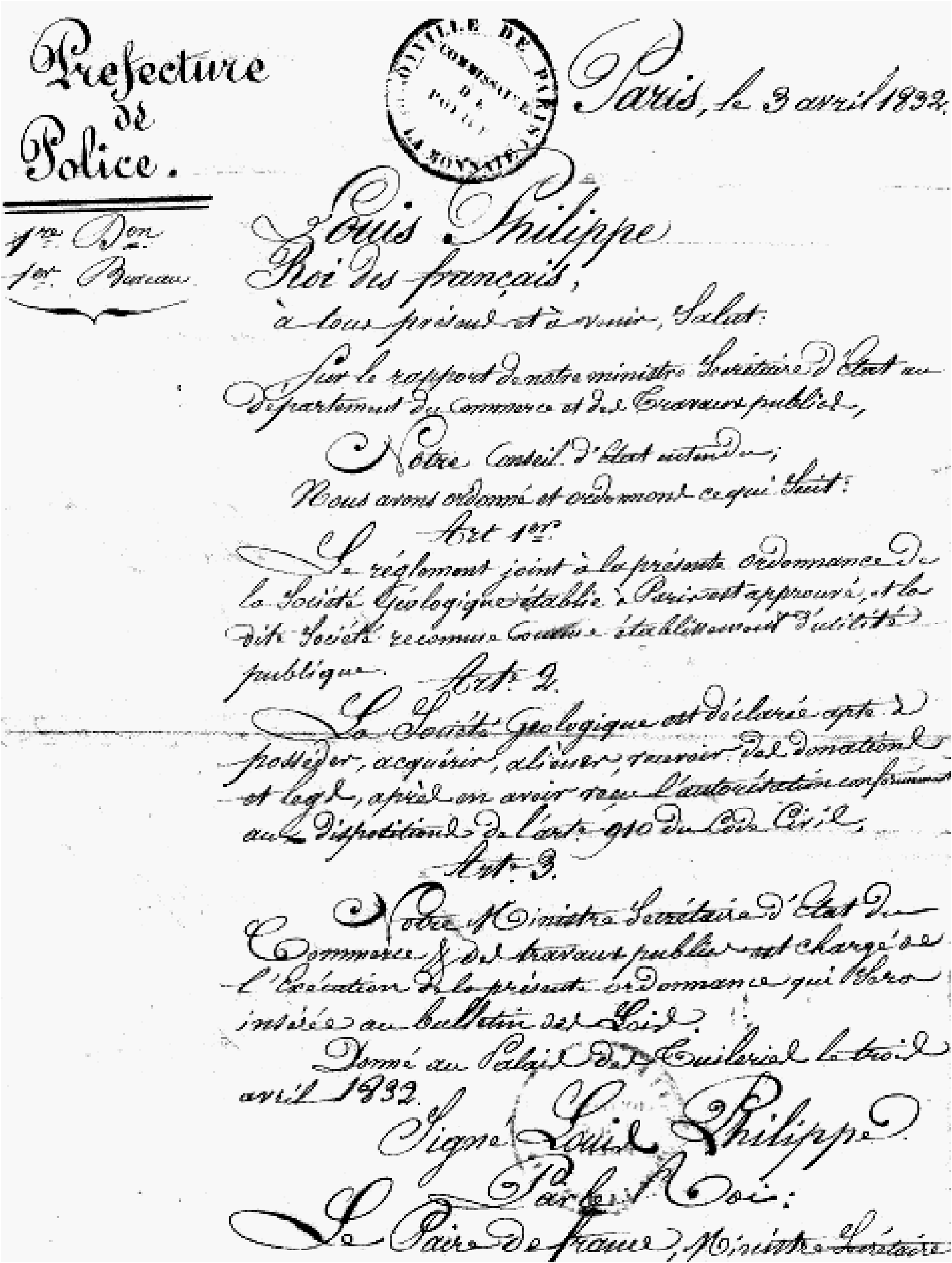 "Picture of a French royal ordinance"